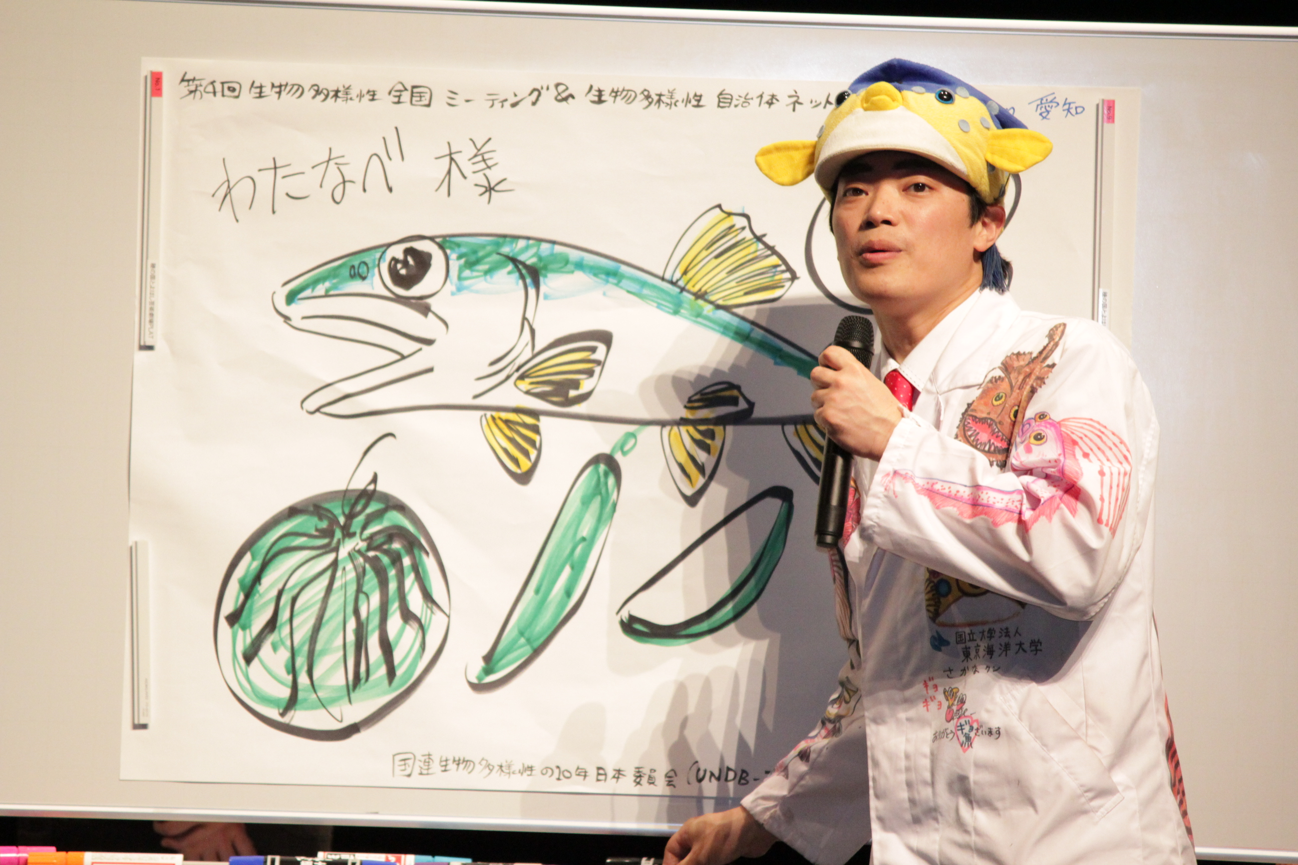 Masayuki Miyazawa, Visiting Associate Professor of the Office of Liaison and Cooperative Research, Tokyo University of Marine Science and Technology, gave a lecture at Toyohashi Arts Theatre PLAT in Toyohashi City, Aichi Prefecture on October 24, 2014.